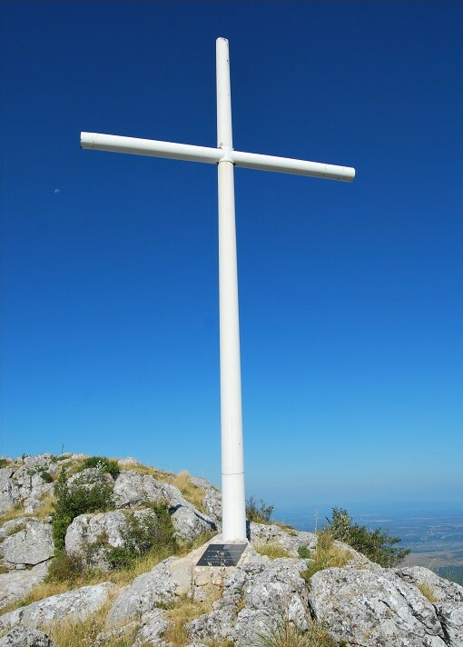 Memorial cross above Kijevo , installed at 2004 in a tribute of all "Cross ways"